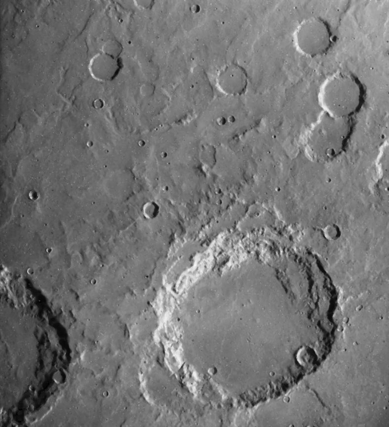 Vogel crater (bottom) on Mars. The small crater near the center of left edge is Nybyen. Viking Orbiter 1 image from camera A (084A07). Clear filter was used for this image. Resolution is about 228 m/pixel. North is to upper right. Emission Angle: 6.8 Incidence Angle: 78.9 Latitude: -36.1 Longitude: 345.2 Phase Angle: 79.4